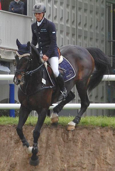 German rider Gilbert Tillmann with Hello Max at the German show jumping derby, Hamburg 2013